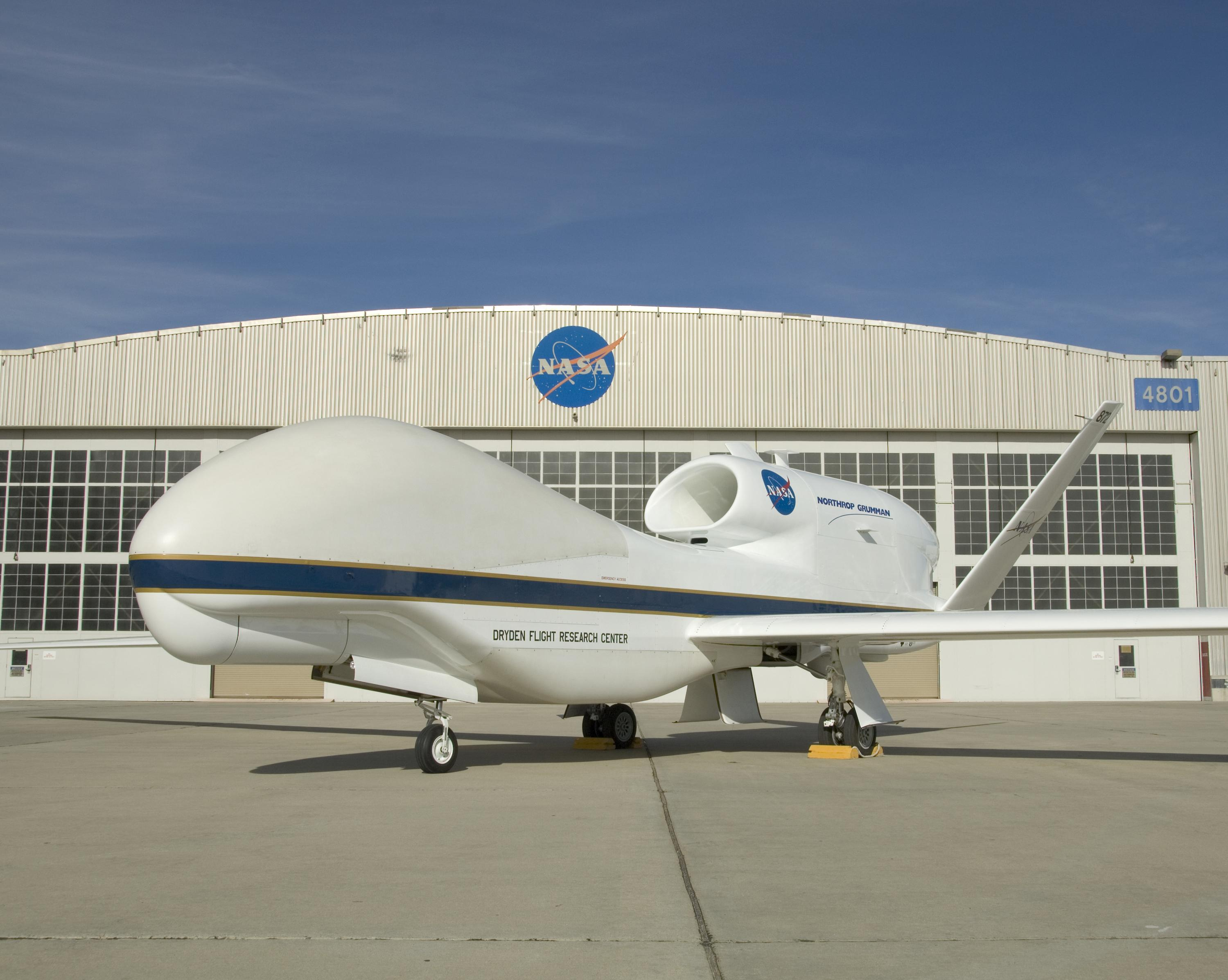 A Global Hawk at NASA's Dryden Flight Research Center in California's Mojave Desert.